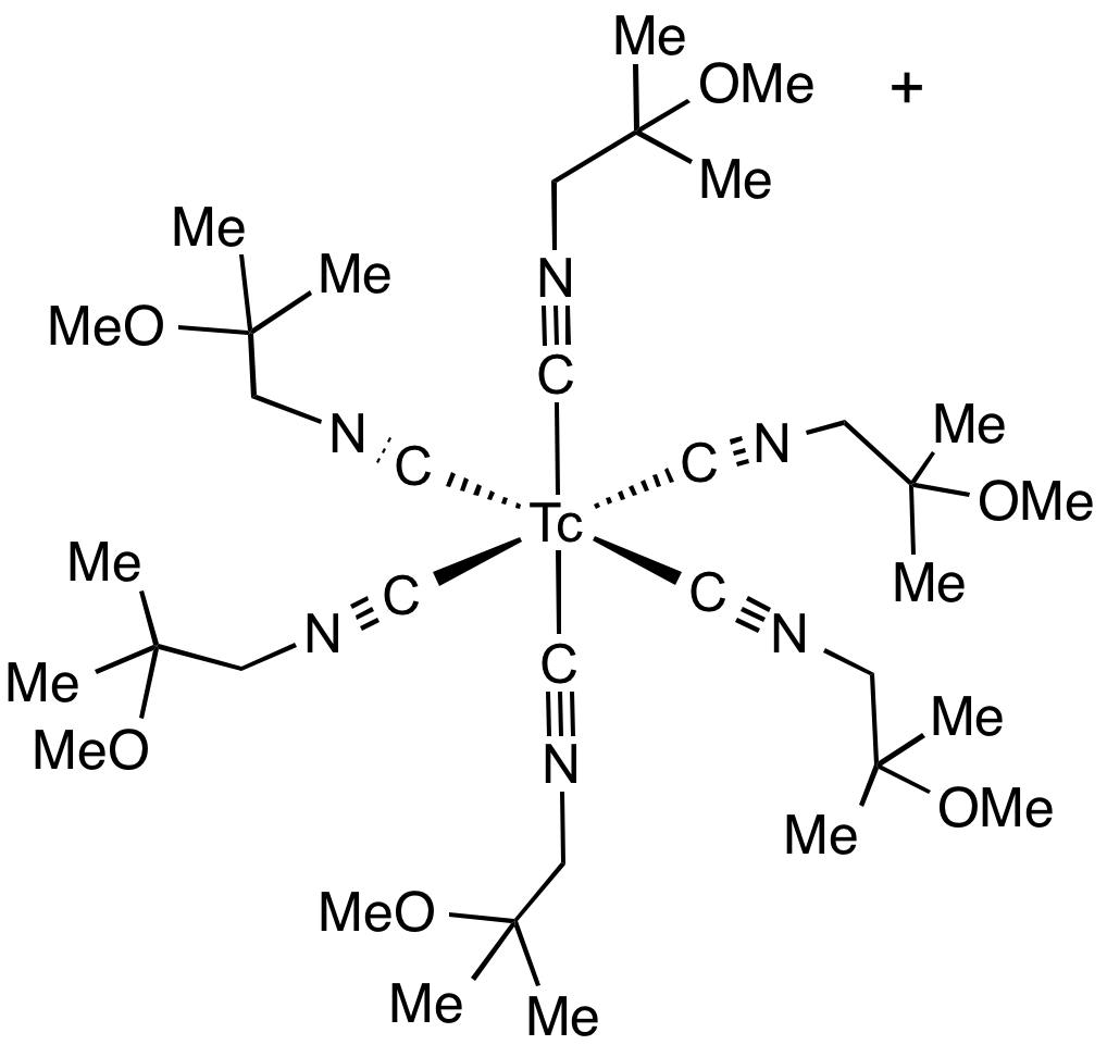 Chemical structure of the complex cation in Cardiolite